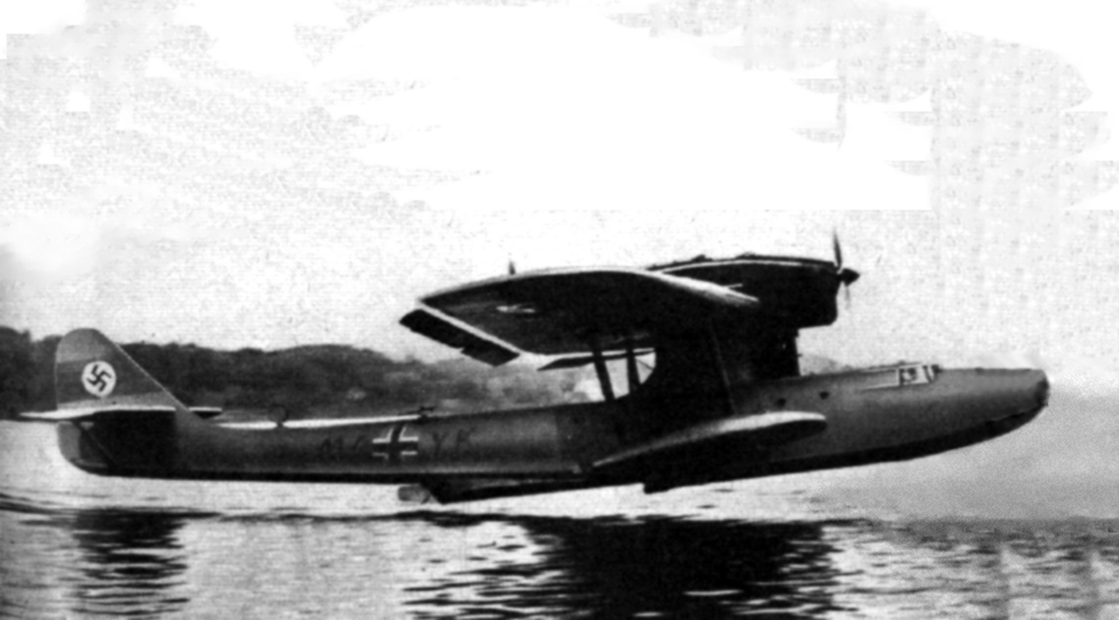 A German Dornier Do 18 taking off before the Second World War.Note: this is obviously a retouched photo of the civil Do 18E D-ABYM (see below).